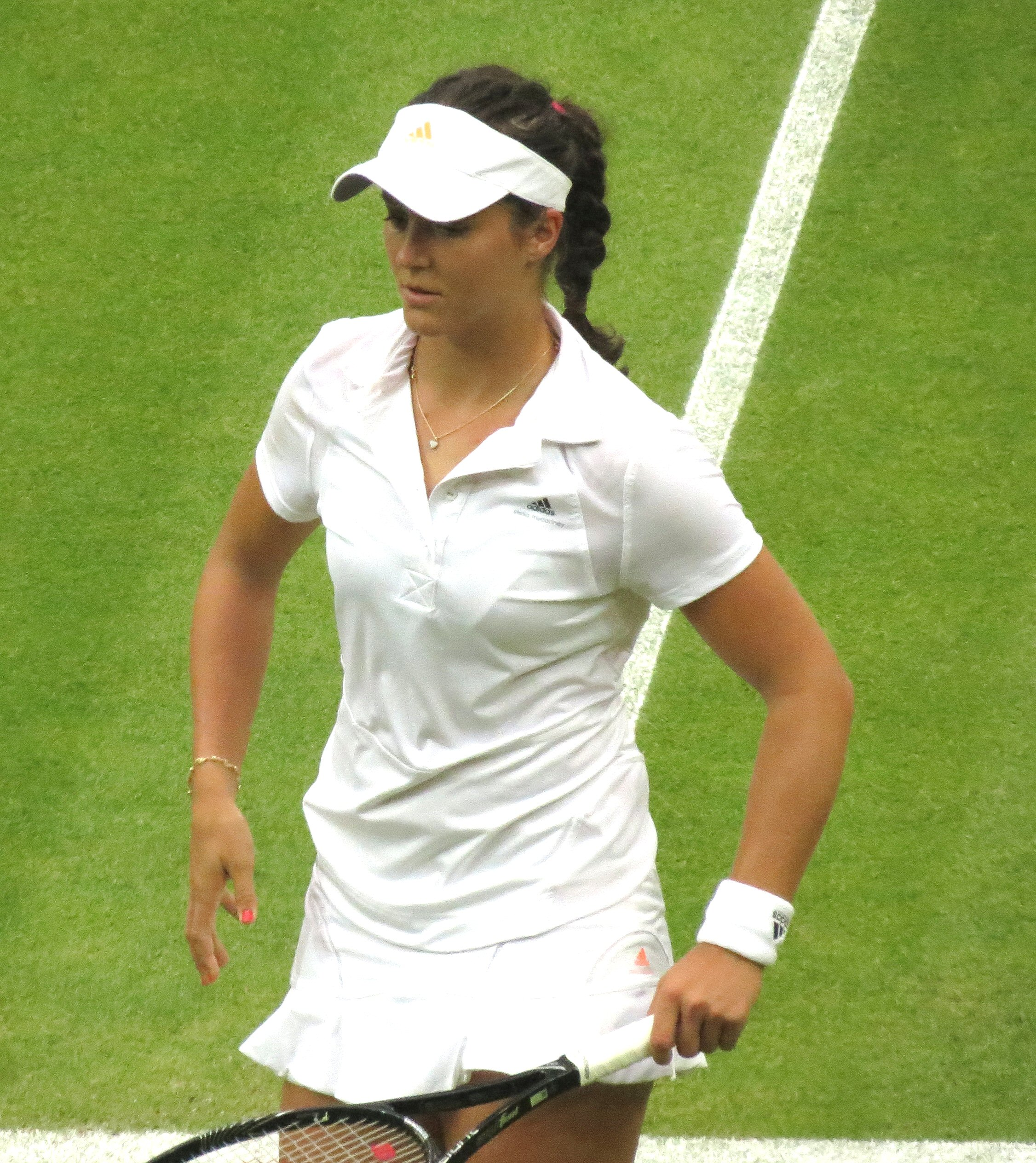 Laura Robson playing at Wimbledon, June 2013